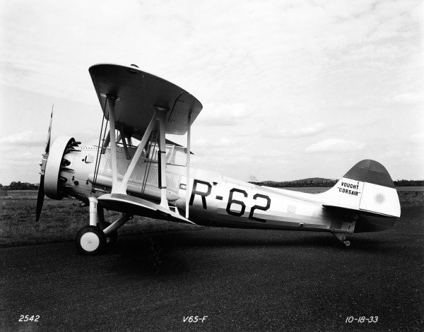 PictionID:40959387 - Catalog:Array - Title:Array - Filename:16_000145 Vought V-65-F R-62 Argentina 18Oct33 2542.tif - - - Ray Wagner was Archivist at the San Diego Air and Space Museum for several years and is an author of several books on aviation --- ---Please Tag these images so that the information can be permanently stored with the digital file.---Repository: San Diego Air and Space Museum